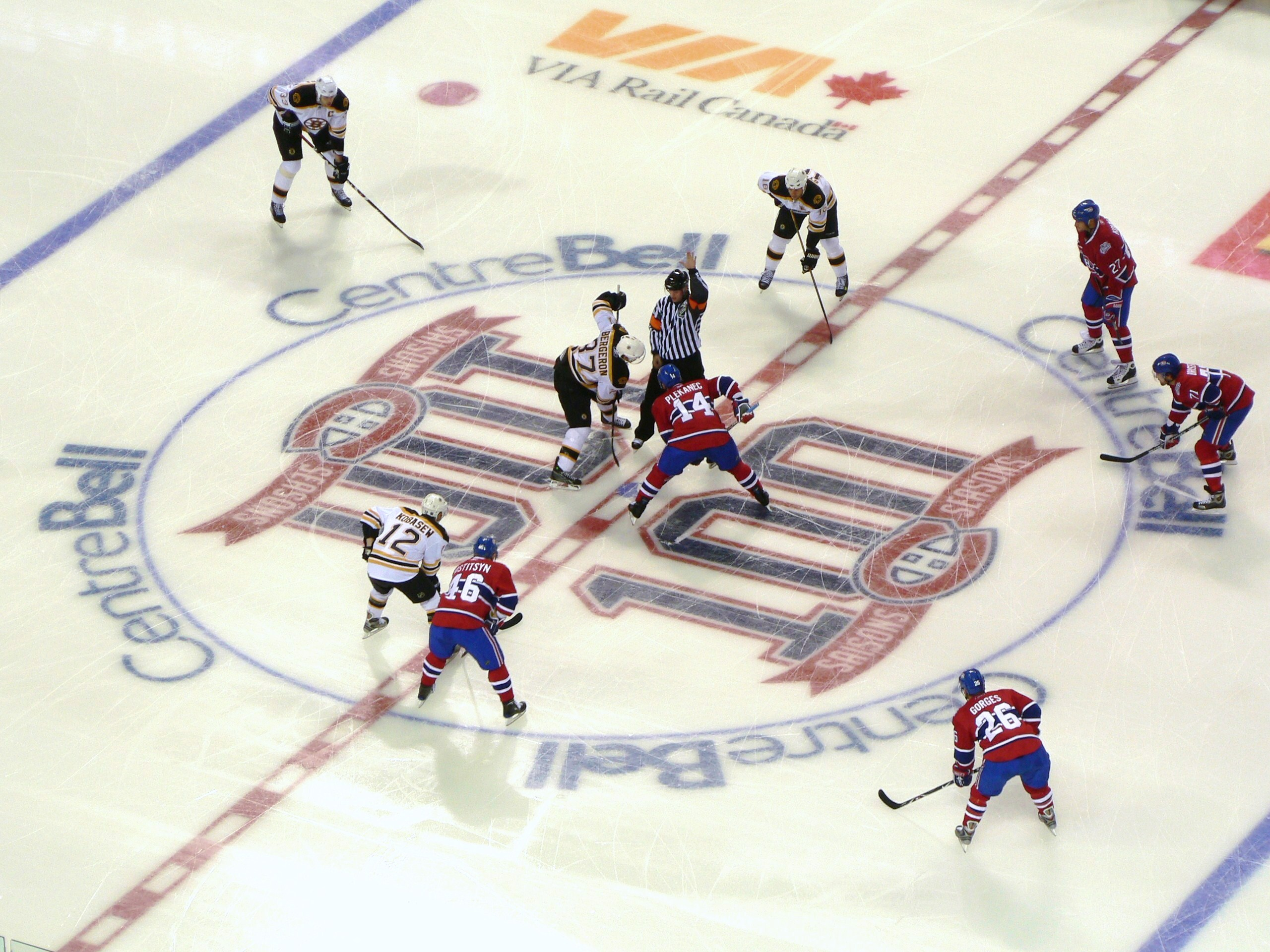 Faceoff between Boston Bruins and Montréal Canadiens, Bell Center, Octobre 1st 2008.